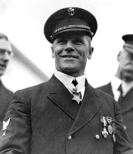 Chief Gunner's Mate Thomas Eadie, USN, wearing the Medal of Honor, which had just been presented by President Calvin Coolidge in ceremonies at the White House, January 1928. Among his other medals are the Navy Cross and the World War I Victory Medal. Standing behind him are Secretary of the Navy Curtis Wilbur (left) and Chief of Naval Operations Admiral Charles F. Hughes.